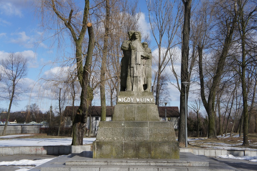 Monument Never war in Żabikowo (district of Luboń) designed by Józef Gosławski in 1956. It is located on the place of former German internment camp (1943-1945)